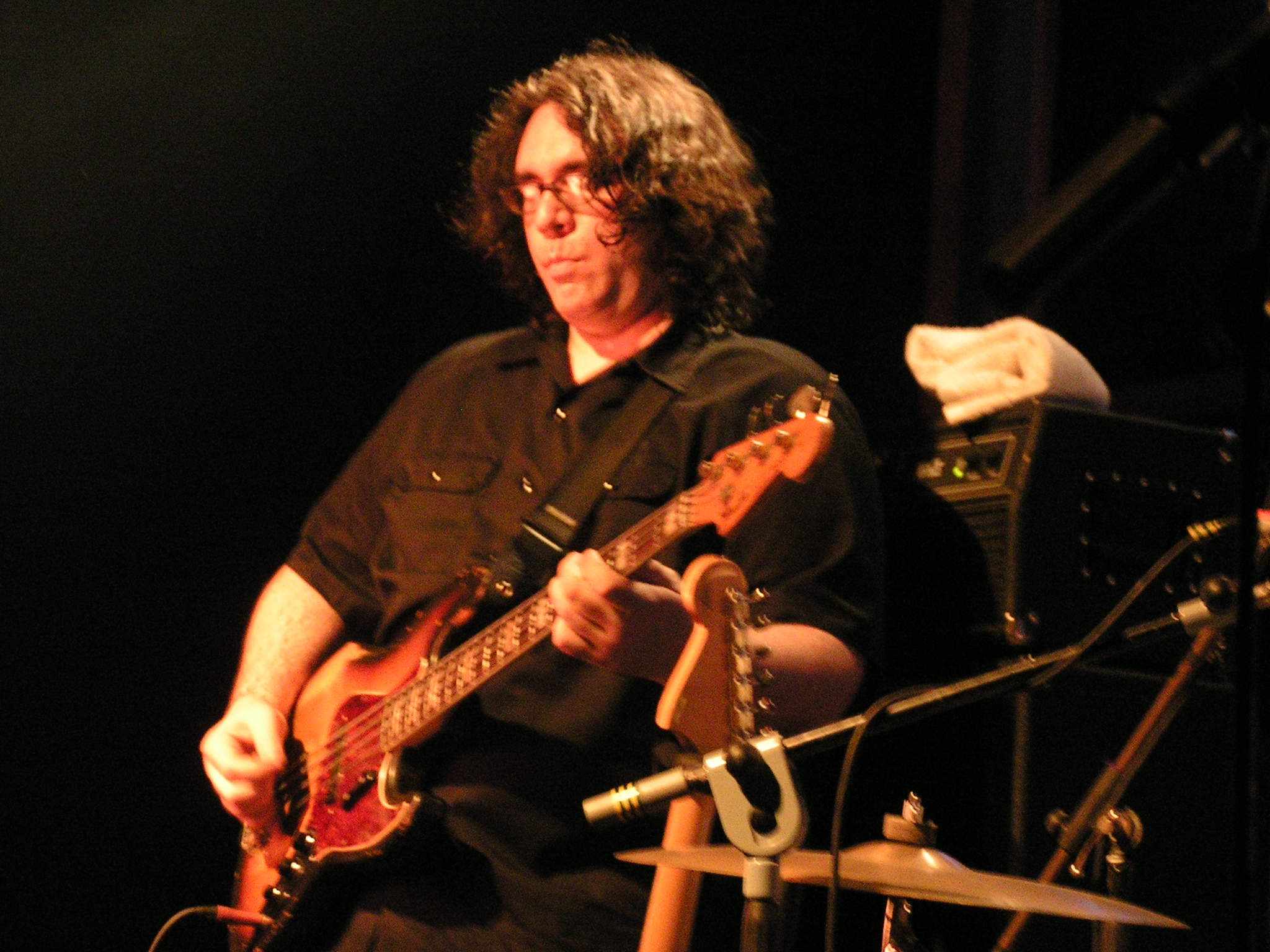 Yo La Tengo, playing live in the Barby club in Tel-Aviv. The Popular Songs tour. March 22, 2010. James McNew